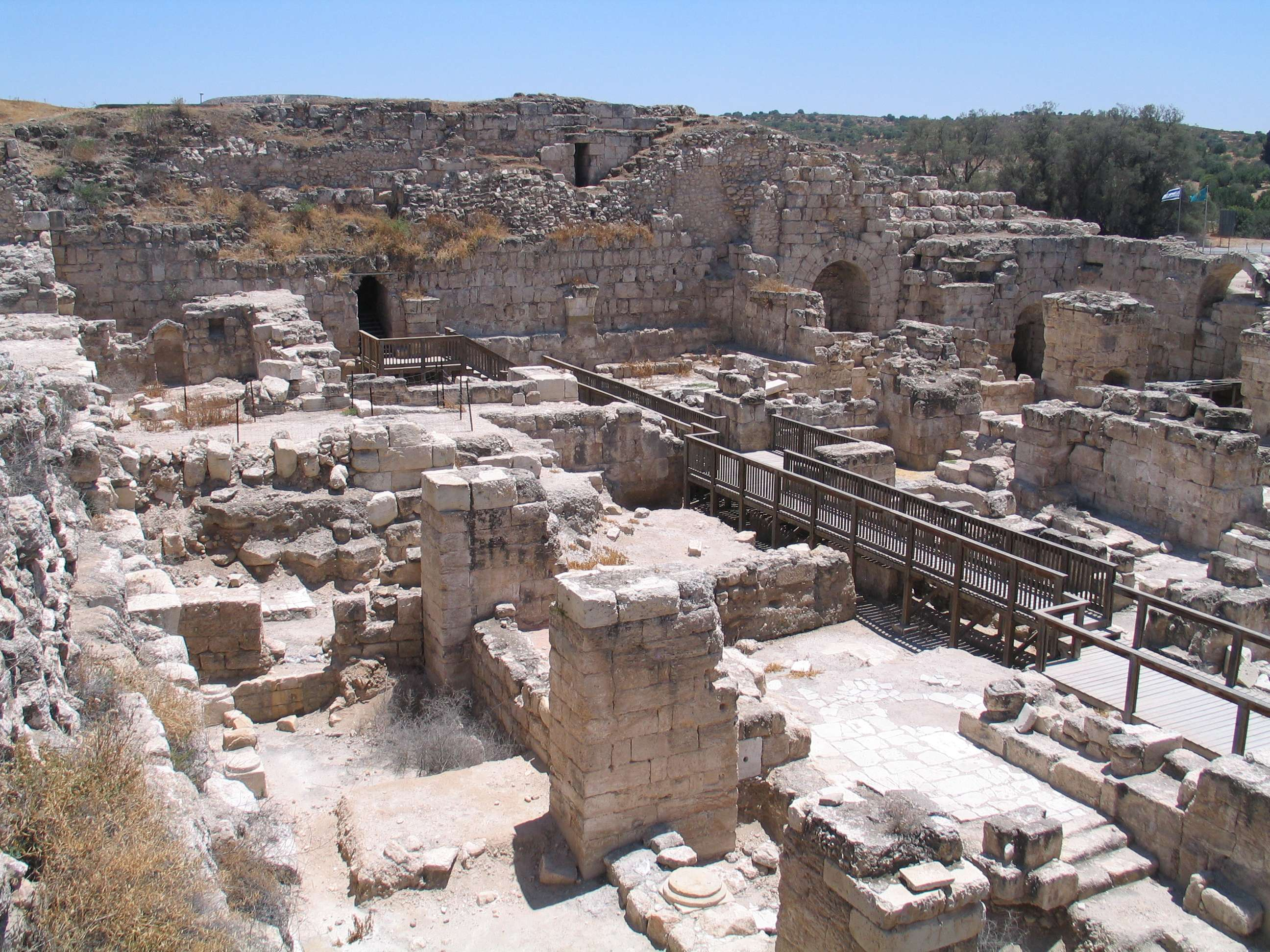 Crusader castle, Beyt Govrin, Israel.